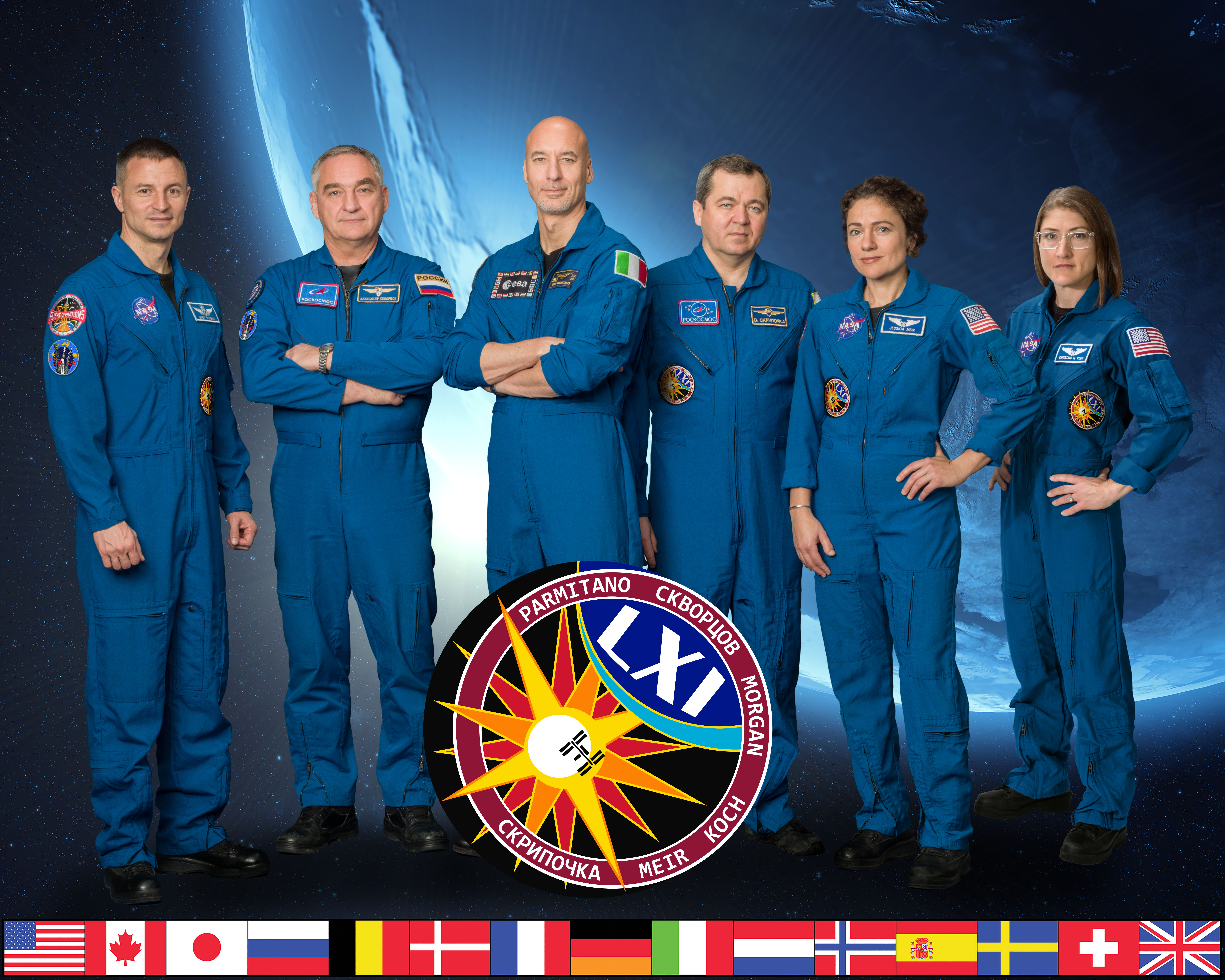 The official Expedition 61 crew portrait with (from left) NASA astronaut Andrew Morgan, Roscosmos cosmonaut Alexander Skvortsov, astronaut Luca Parmitano of ESA (European Space Agency), Roscosmos cosmonaut Oleg Skripochka, and NASA astronauts Jessica Meir and Christina Koch.